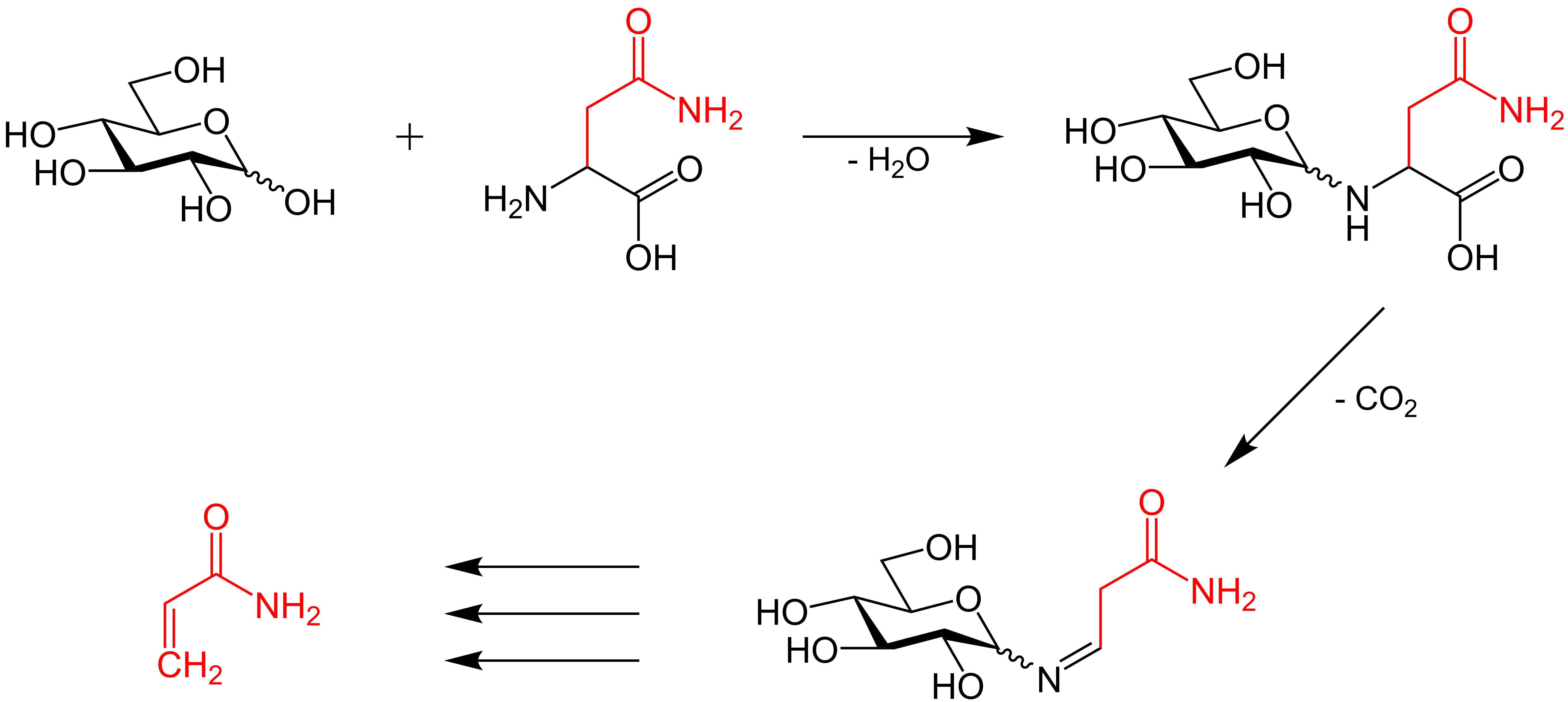 Maillard reaction implicated as the first step in converting asparagine to acrylamide.